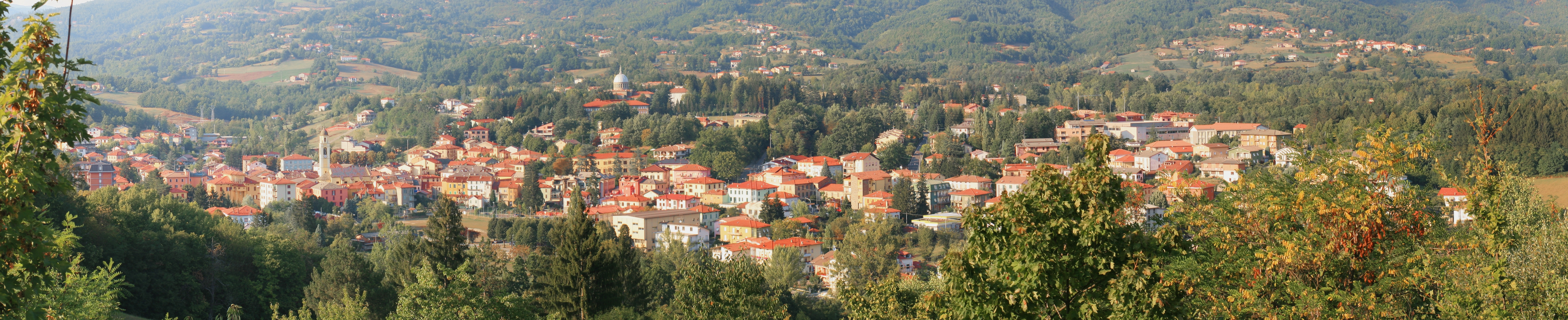 Panorama of Bedonia, Italy